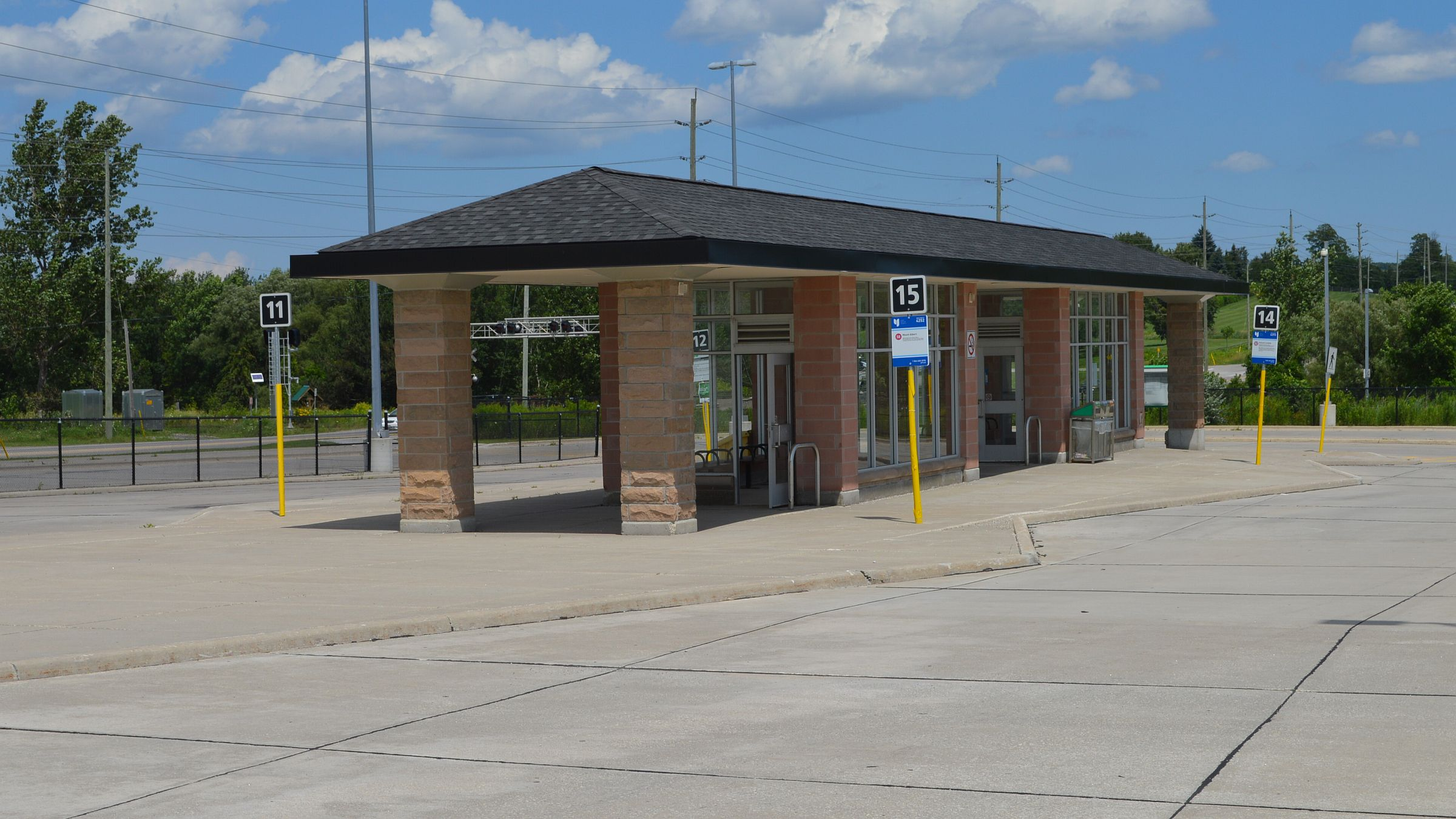 East Gwillimbury GO Station bus terminal for York Region Transit